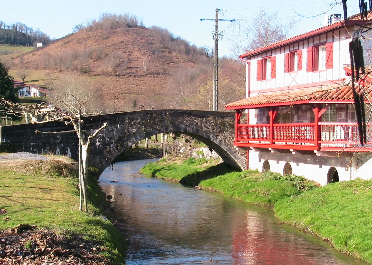 Aran River in Bonloc, French Basque Country.